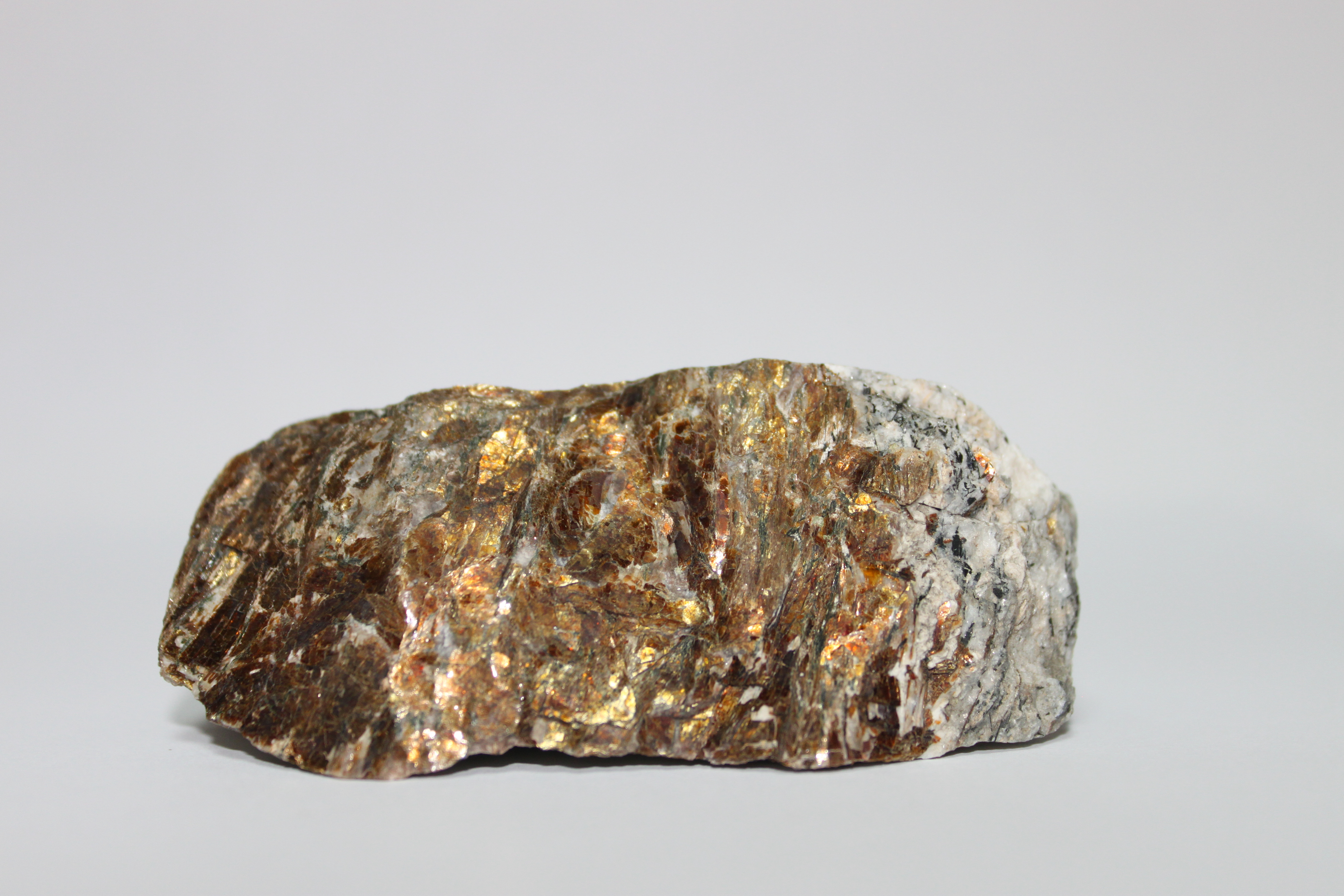 Wikitrip to Geography Institute RAS 2019-12-19.